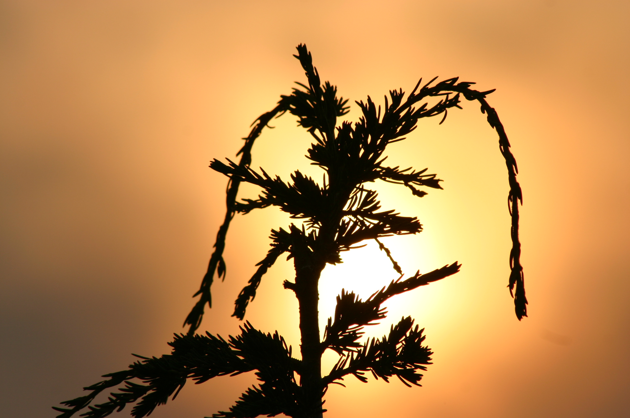 Needle leaves at a tree (Tsuga mertensiana) top, with the Sun illuminating from the back.